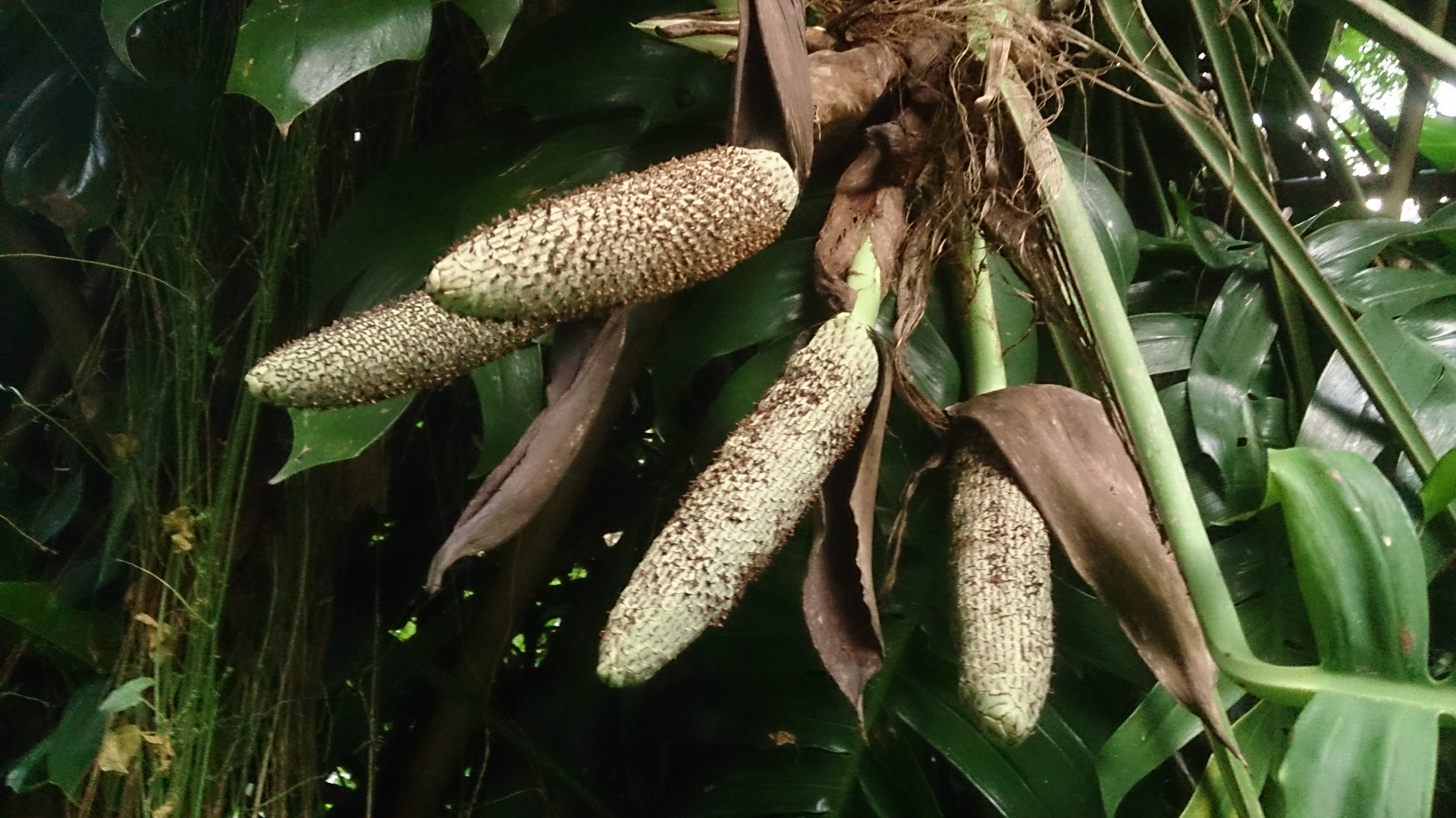 Epipremnum pinnatum. Common name: Dragon-Tail Plant. 麒麟叶 (Chinese)